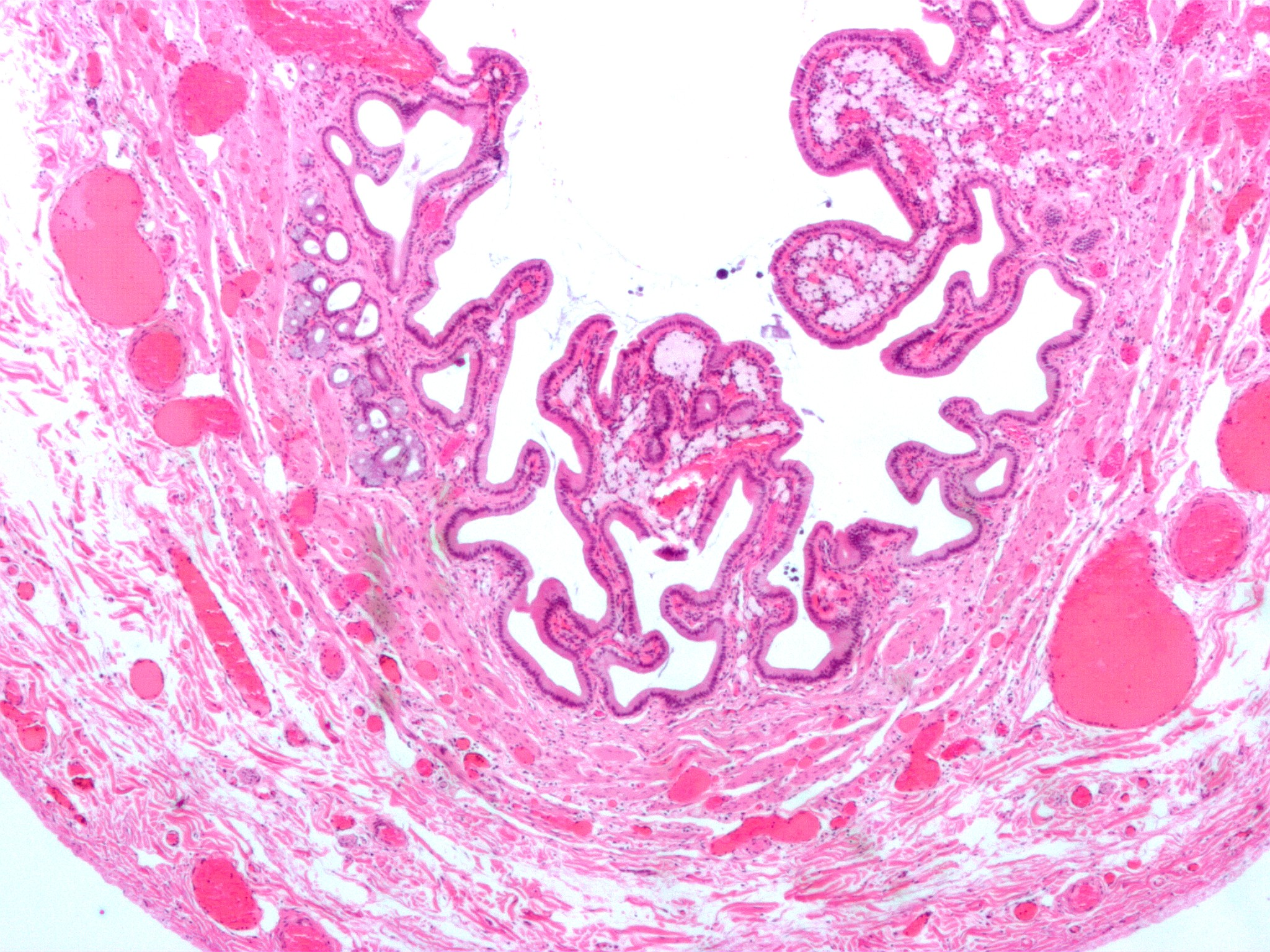 Micrograph of gallbladder with cholesterolosis. Cholecystectomy specimen. H&E stain. Low power magnification. Dead lipid laden macrophages (foam cells) are seen in the finger-like projections into the gallbladder lumen. It should be apparent that this is gallbladder, as no muscularis mucosae is present (as elsewhere in the gastrointestinal tract). The blood vessels are congested and the subserosa edematous.